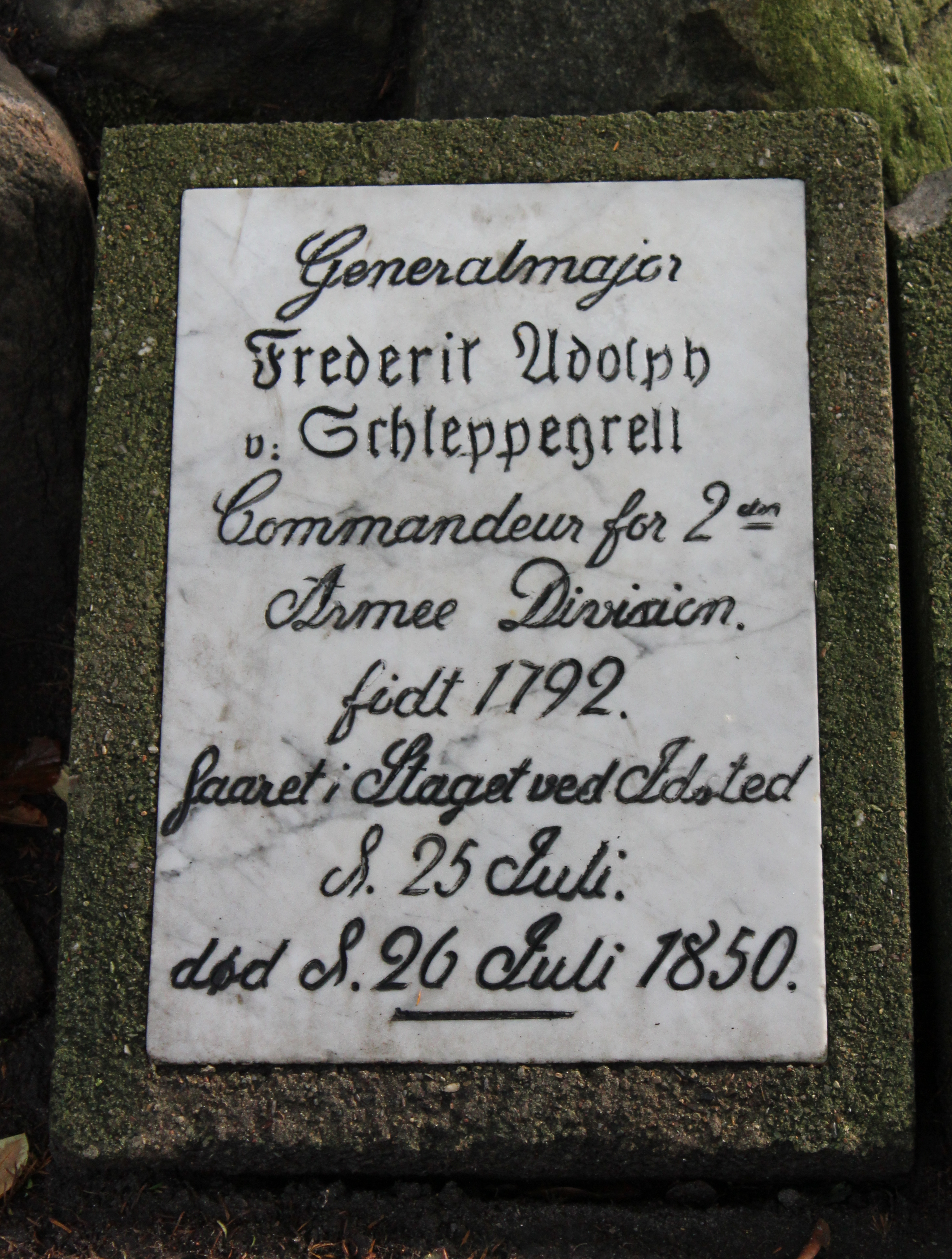 The gravestone of Friderich Adolph Schleppegrell on the old cemetery in Flensburg(h), which is opposite of the guarding Flensburg Lion.